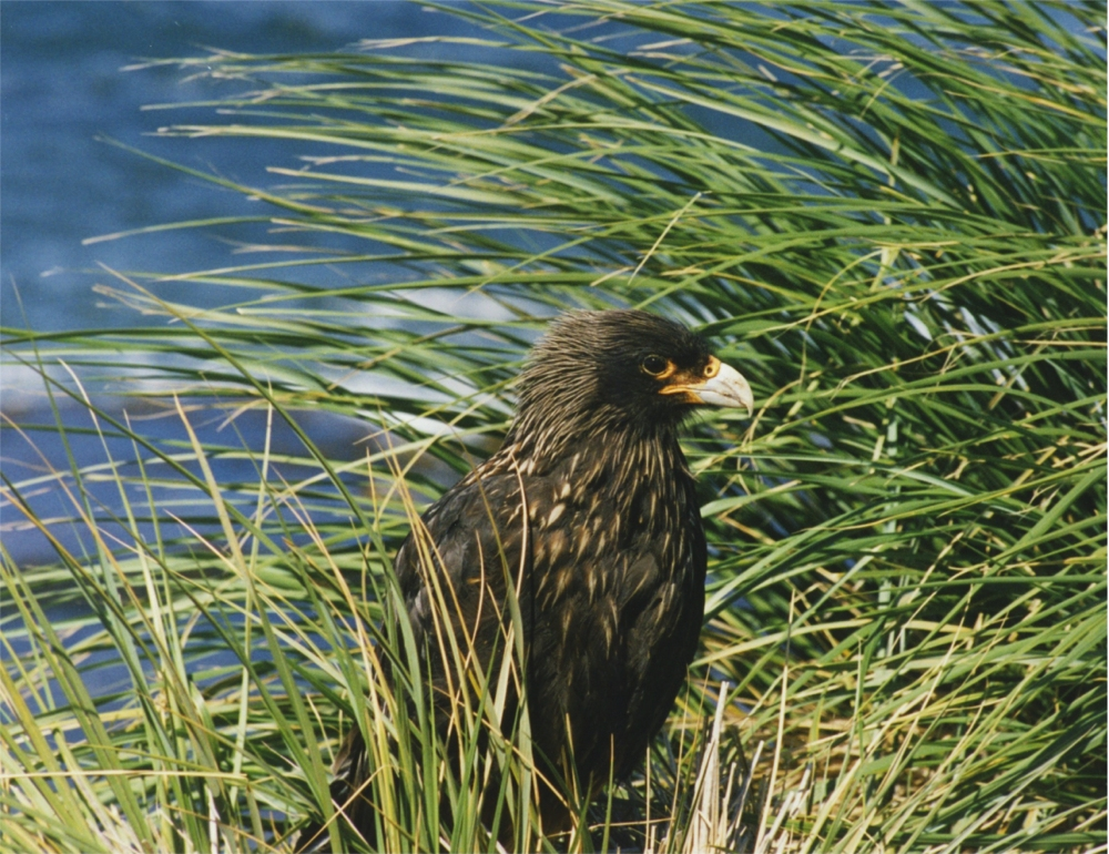 Striated Caracara at Falkland Islands. The picture is a scan of an old film picture. The picture was taken by Brocken Inaglory